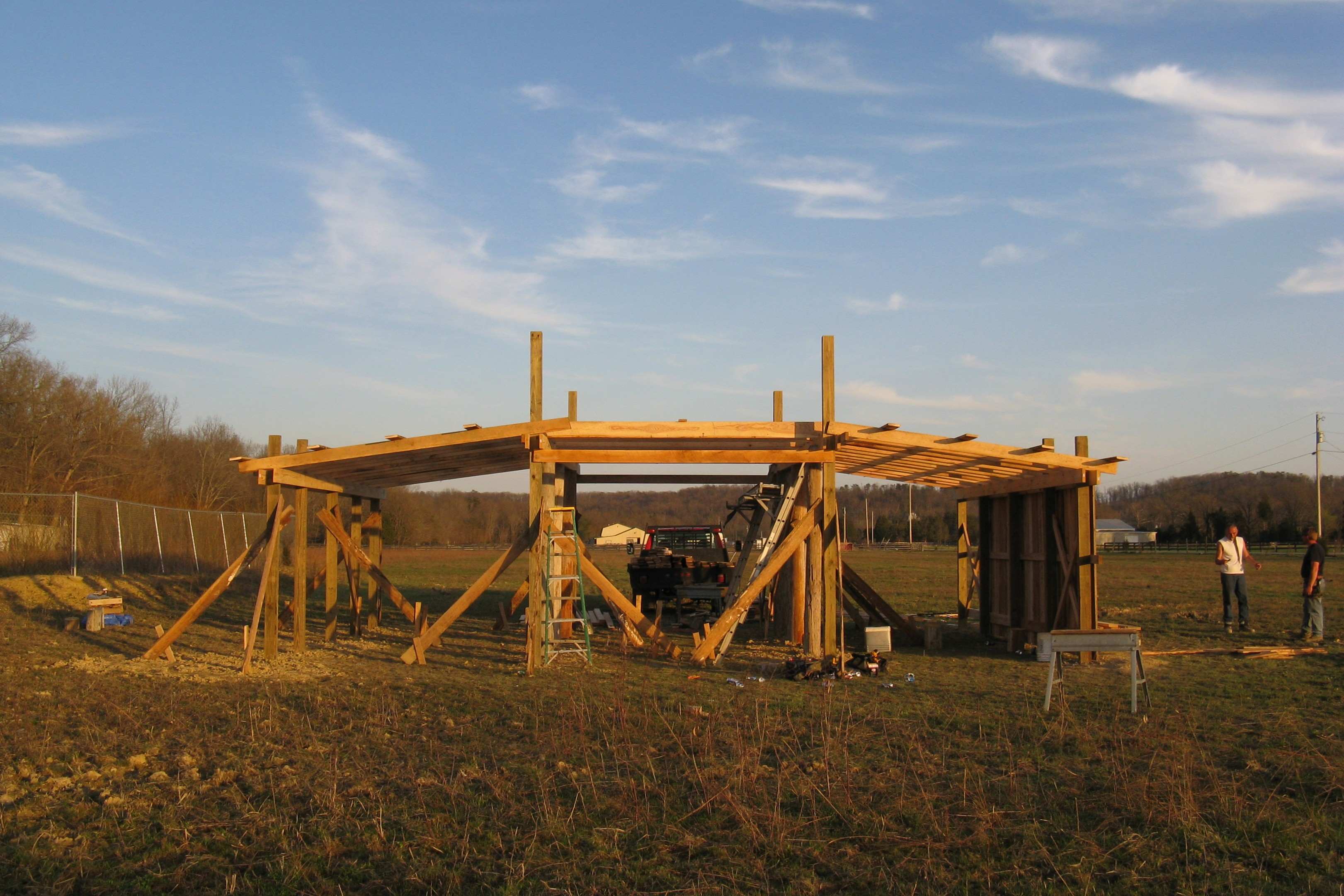 A pole barn under construction